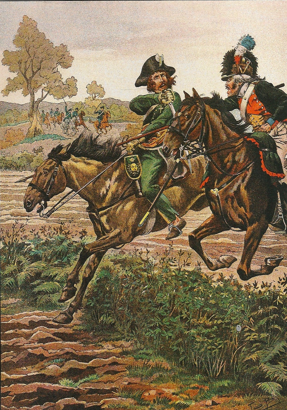 Figure on the right side illustrates a piquer of the Legion des Germains 1792